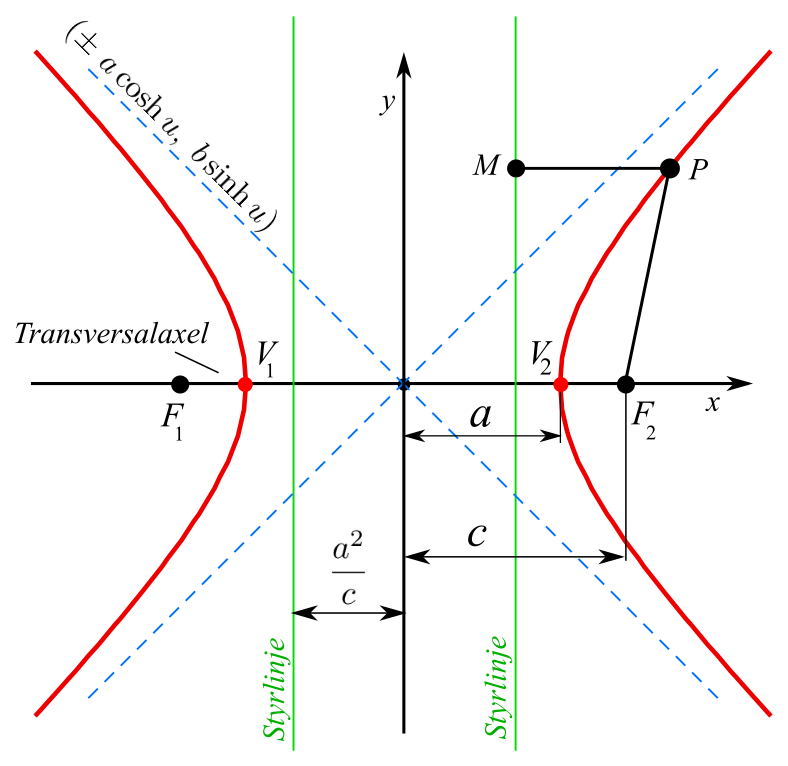 hyperpola